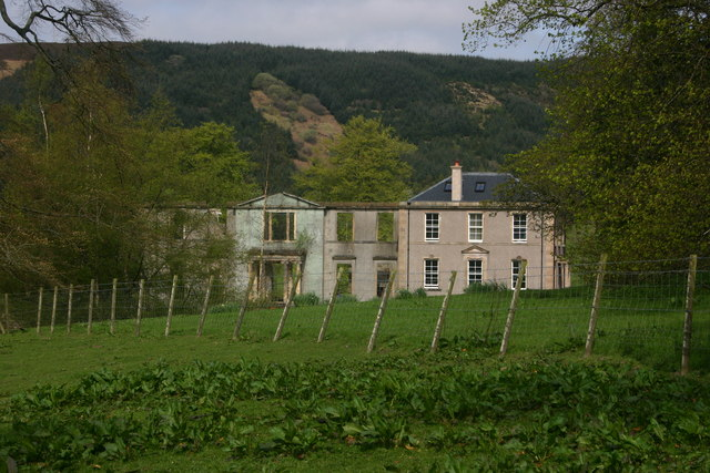 Darleith House Darleith House partly rebuilt after falling into disuse. Information....Darleith, an estate, with a mansion, in the SW of Bonhill parish, Dunbartonshire, 3 miles N by W of Cardross. Its owner, Archibald Buchanan Yuille, Esq. (b. 1812; suc. 1879), holds 1292 acres in the shire, valued at £845 per annum.